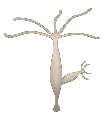 Hydra. Images are from Togo picture gallery maintained by Database Center for Life Science (DBCLS).